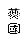 seal of the state of Yan (燕)